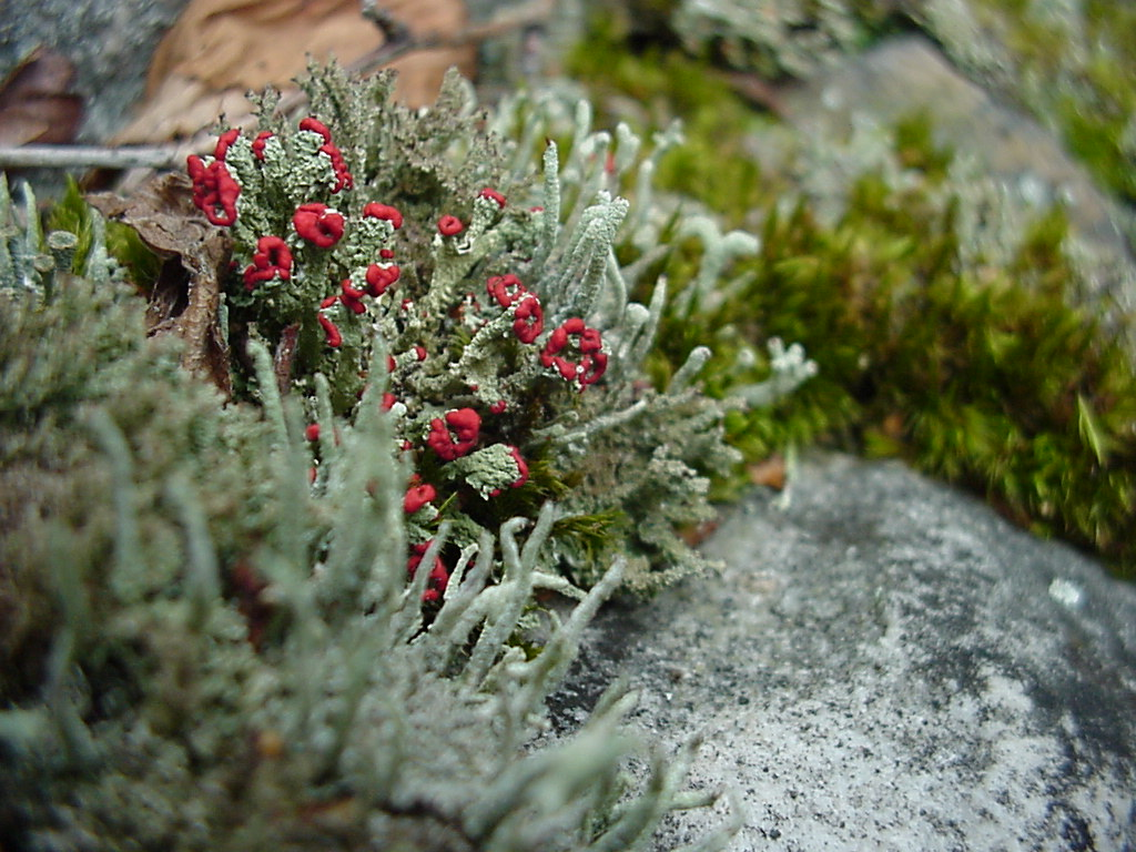 Cladonia cristatella (British soldier lichen)